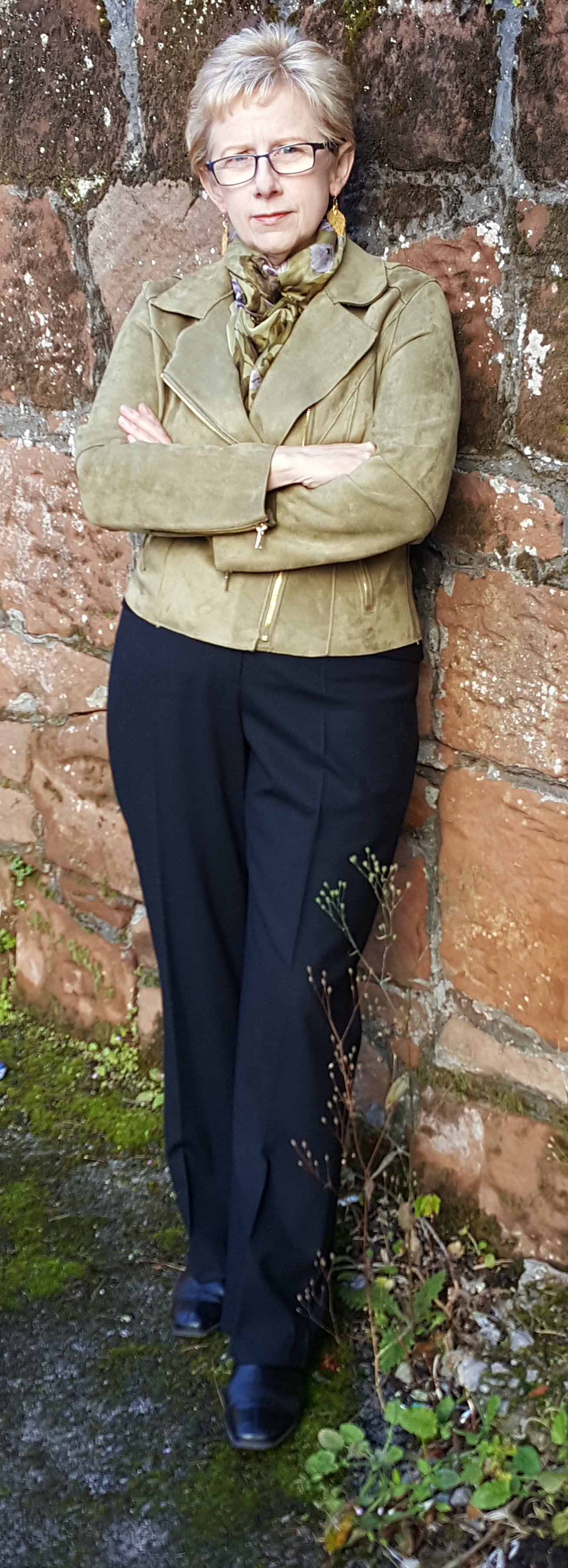 A photo of British crime and thriller novelist, Margaret Murphy. Pictured standing in front of a sandstone wall.